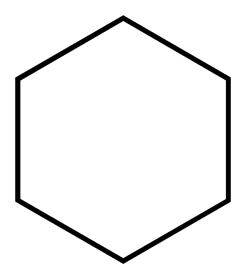 Skeletal formula of cyclohexane